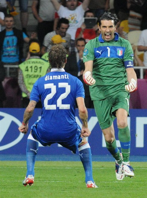 Alessandro Diamanti and Guialuigi Buffon celebration at the end of Euro 2012 match against England